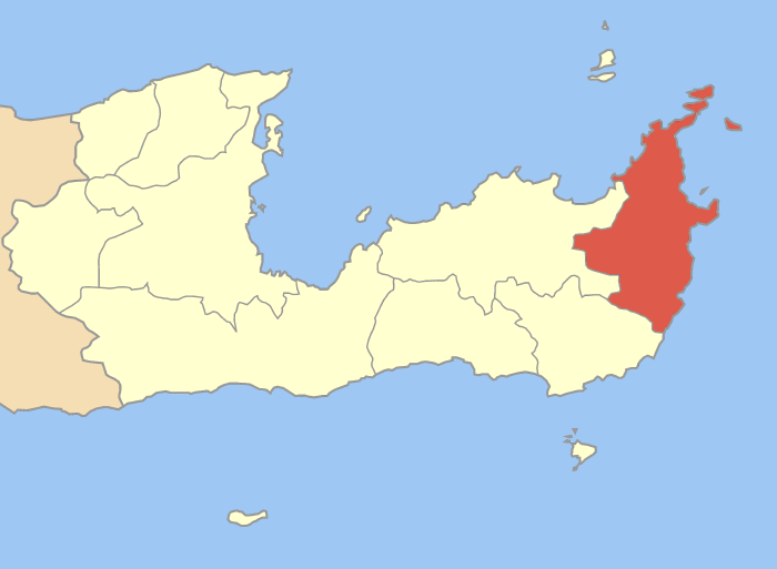 Locator map of Itanos municipality (Δήμος Ιτάνου) in Lasithi prefecture (Νομός Λασιθίου) in Greece.